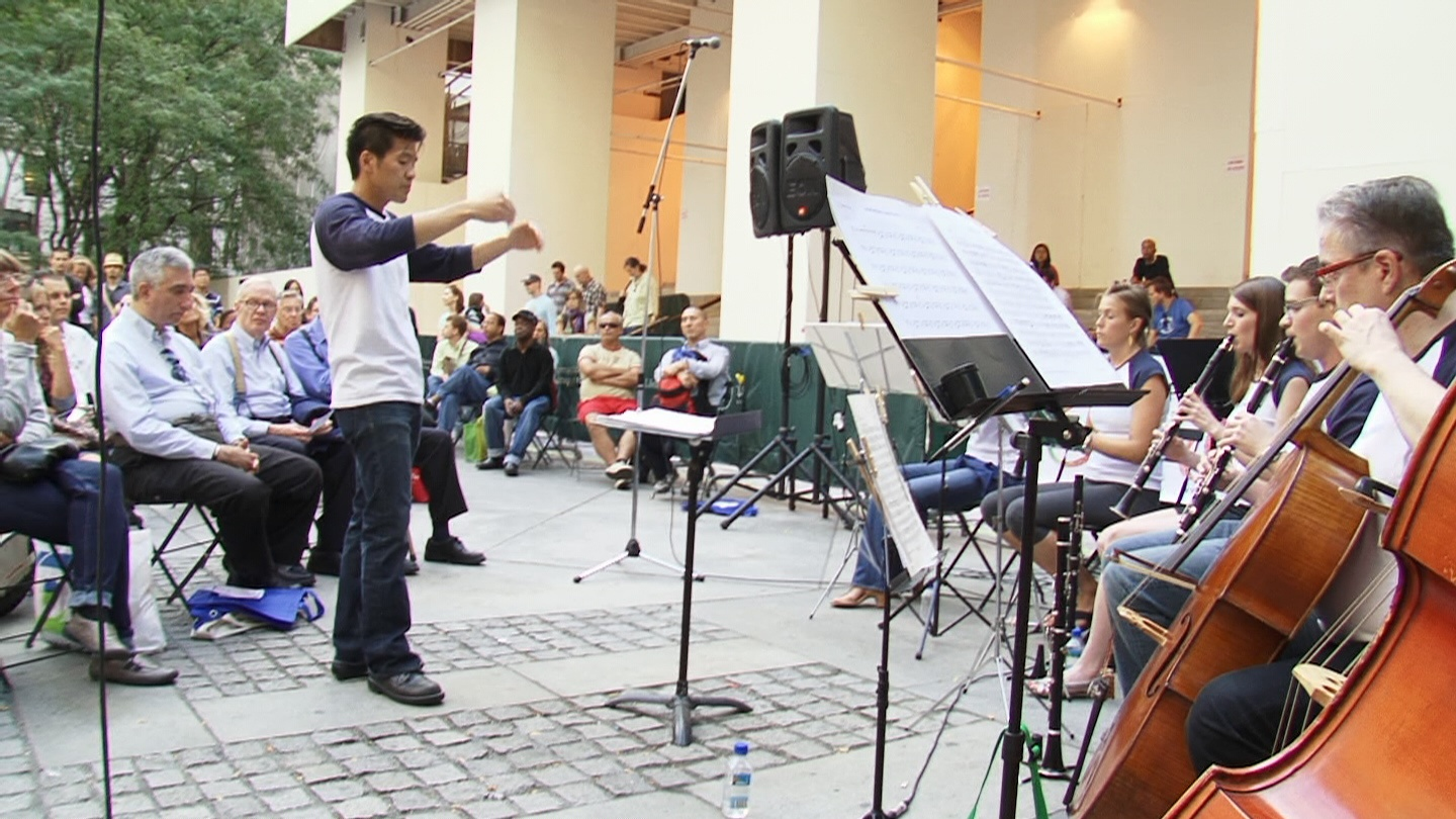 Classical music celebration Sept Concert